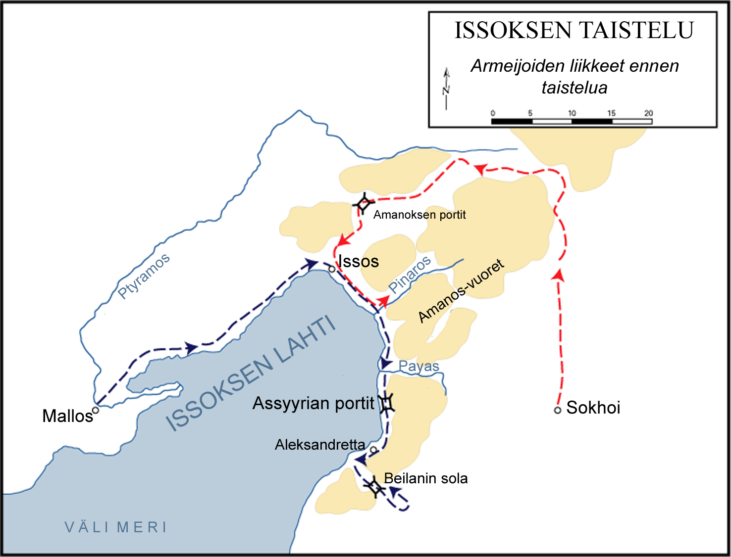 Version of Image:Battle issus movements.gif with finnish labels.